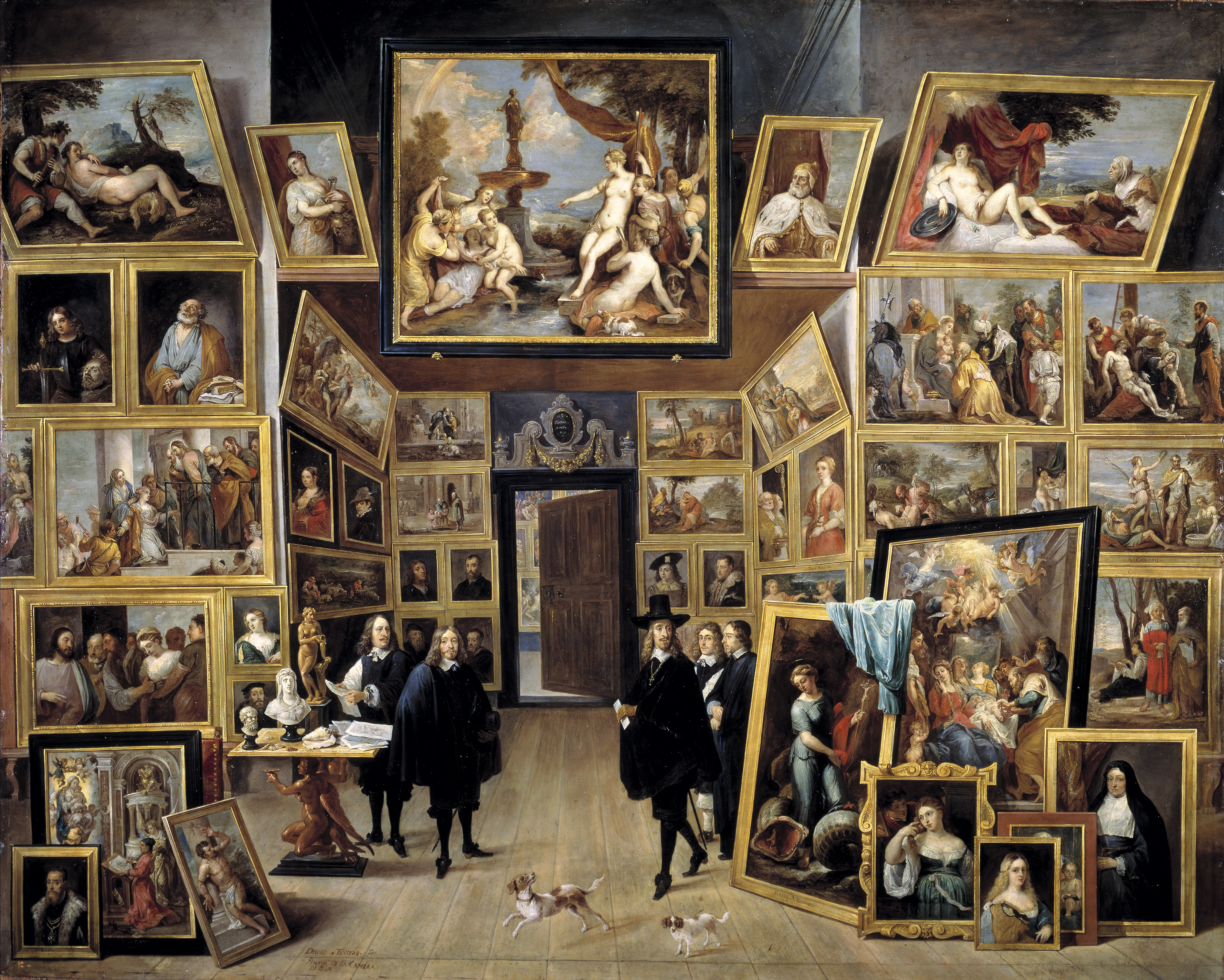 The Archduke, wearing a hat, is showing his pictures, almost half of them by Titian. Other Venetians represented are Giorgine, Antonello da Messina, Palma Vecchio, Tintoretto, Bassano and Veronese; there are also Mabuse, Holbein, Bernardo Strozzi, Guido Reni and Rubens. The sculpture supporting the table, is Ganymede, a bronze by Duquesnoy the Younger. Four gentlemen, are with the Archduke, one of whom is Teniers, his court painter.